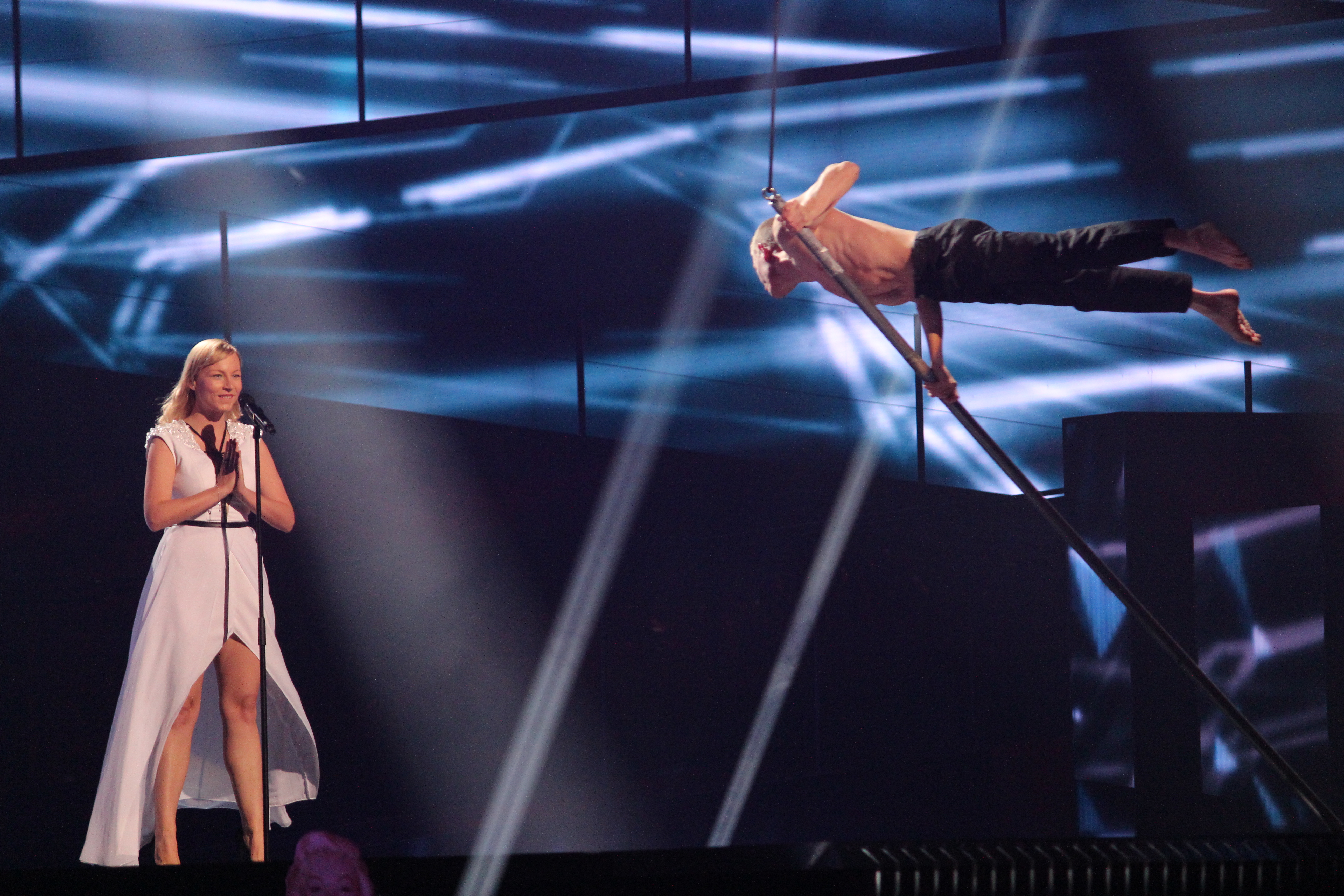 ManuElla representing Slovenia at the Eurovision Song Contest 2016.